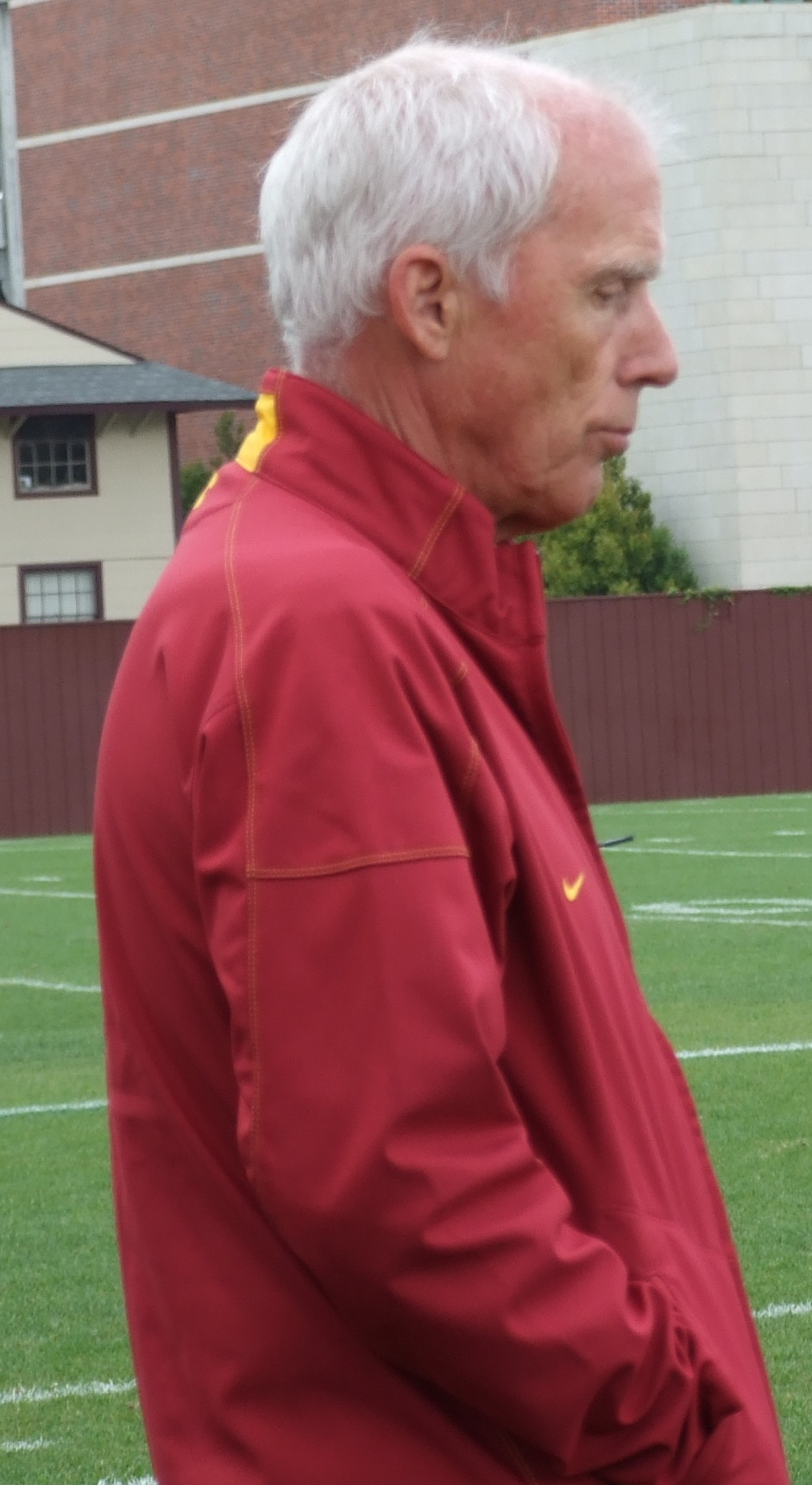 (Scott Enyeart/Neon Tommy)